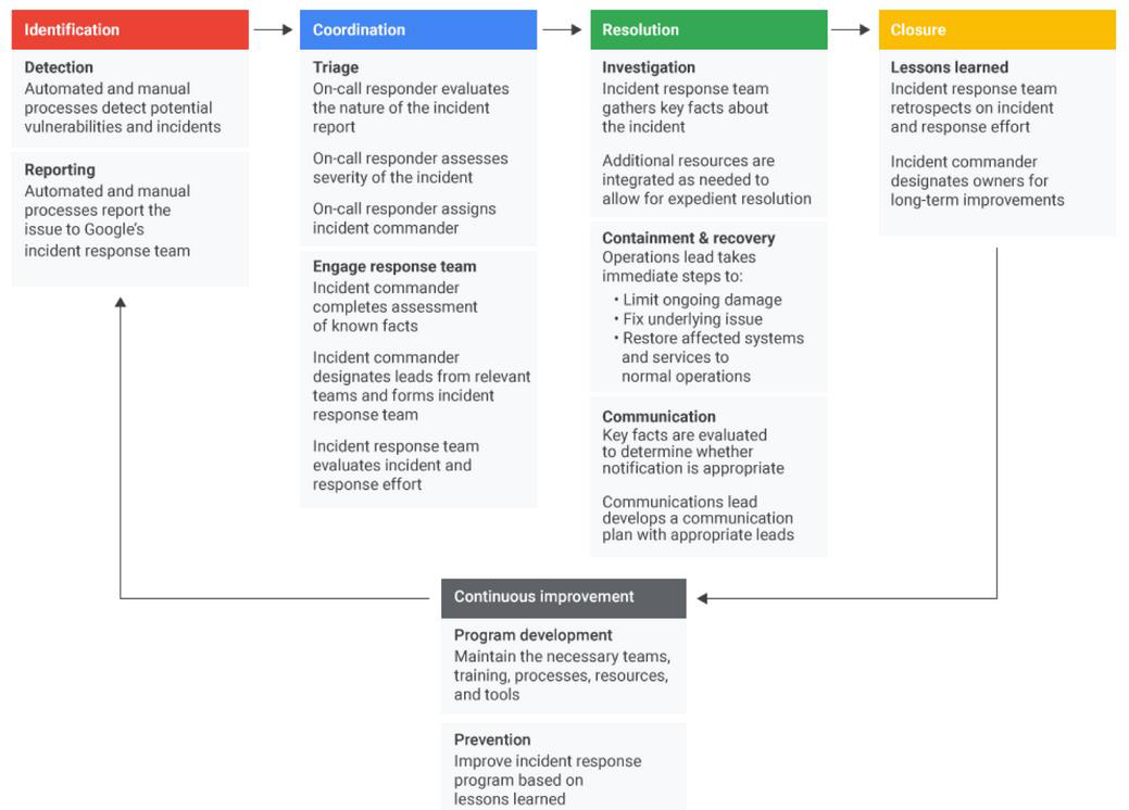 Incident response workflow